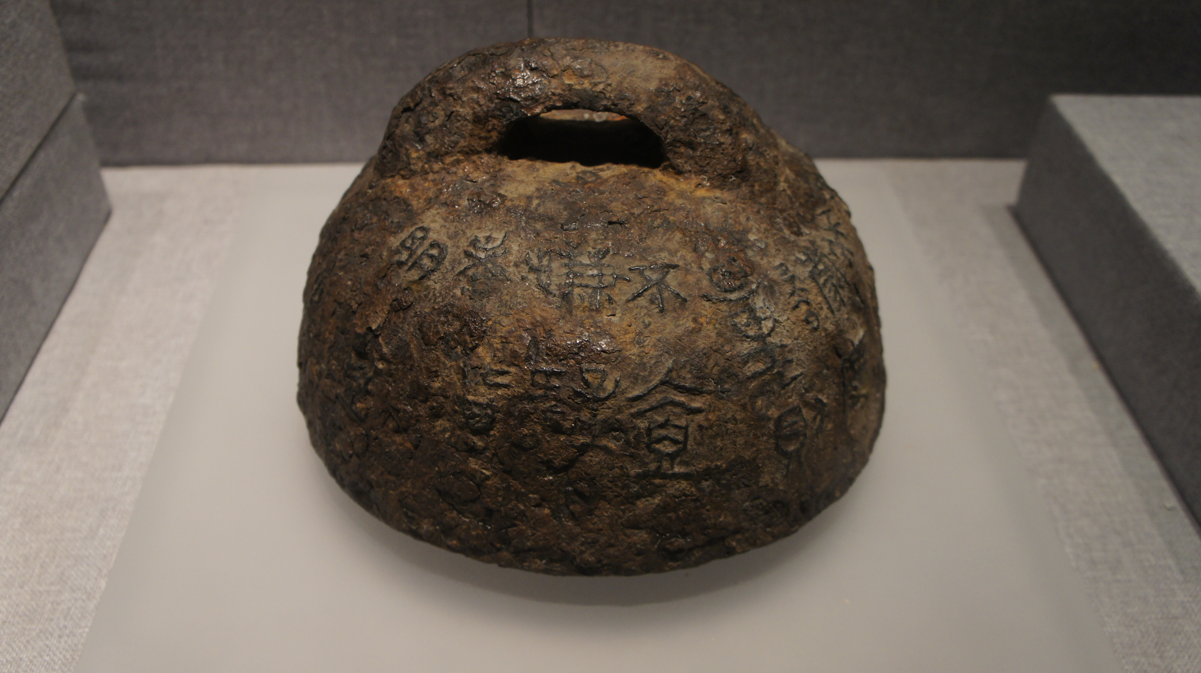 Iron weight dated from 221 BC with 41 inscriptions written in seal script about standardizing weights and measures during the 1st year of Qin dynasty (221 BC-207 BC), excavated in 1986 at Gucheng, Shangjiuwu, Baofeng, Henan. Inscriptions: 二十六年 皇帝尽并兼天下诸侯 黔首大安 立号为皇帝 乃诏丞相 状 绾 法度量则不壹歉 疑者皆明壹之